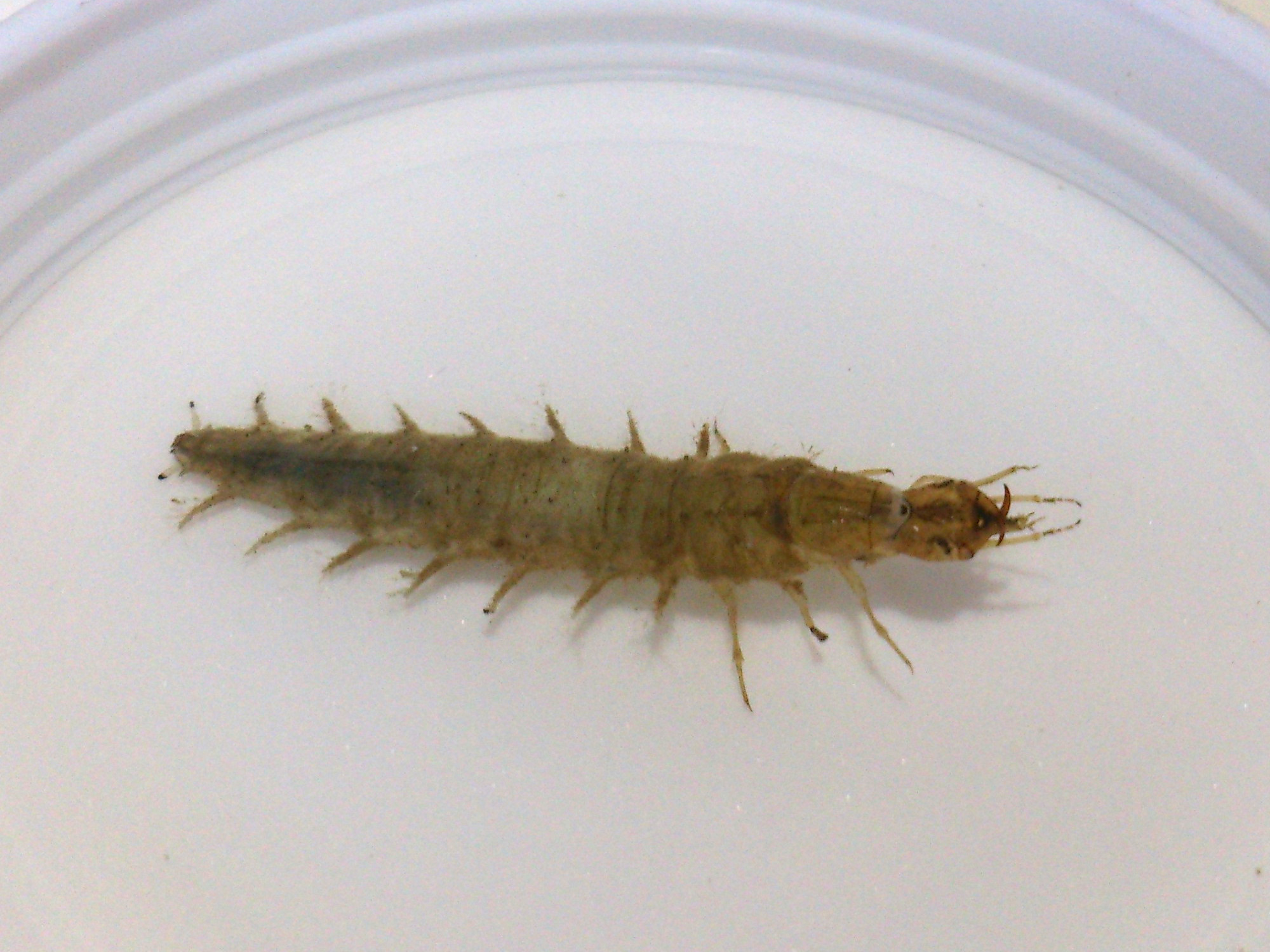 A larva of hydrophilidae (probably Hydrochara affinis) after died within 12 hours.